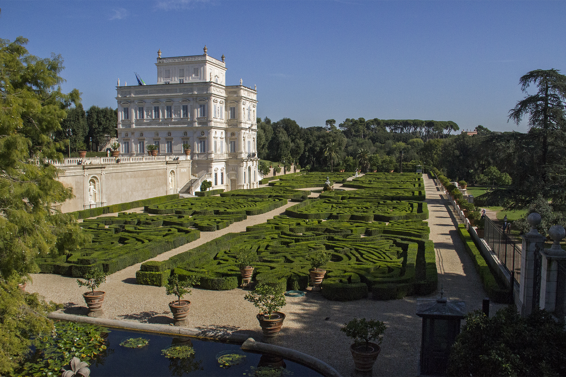 Baroque parterre garden of the Casino del bel respiro at Villa Doria Pamphili, Rome. 6284